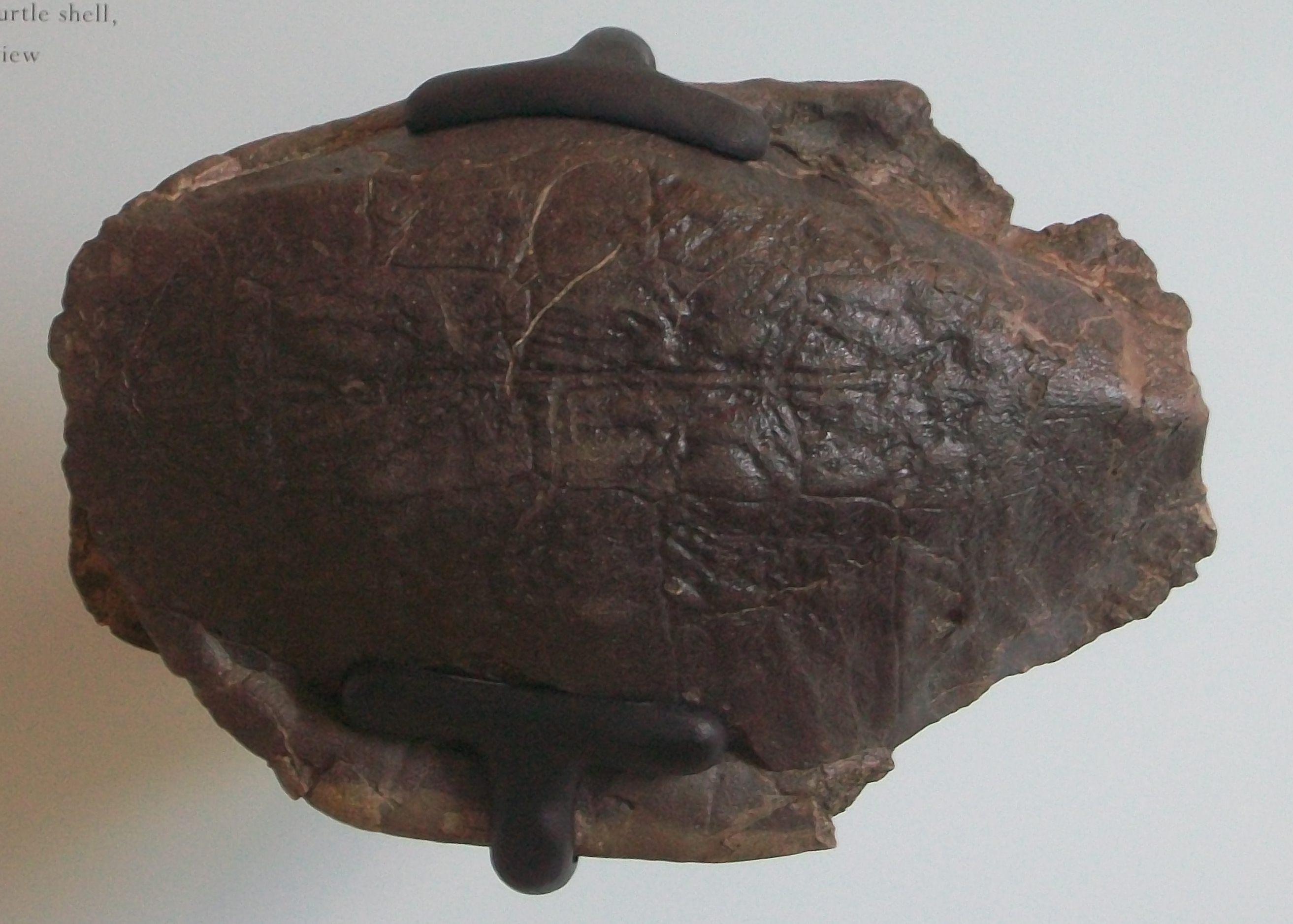 Shell of Baena arenosa (specimen AMNH 1112) in the American Museum of Natural History.